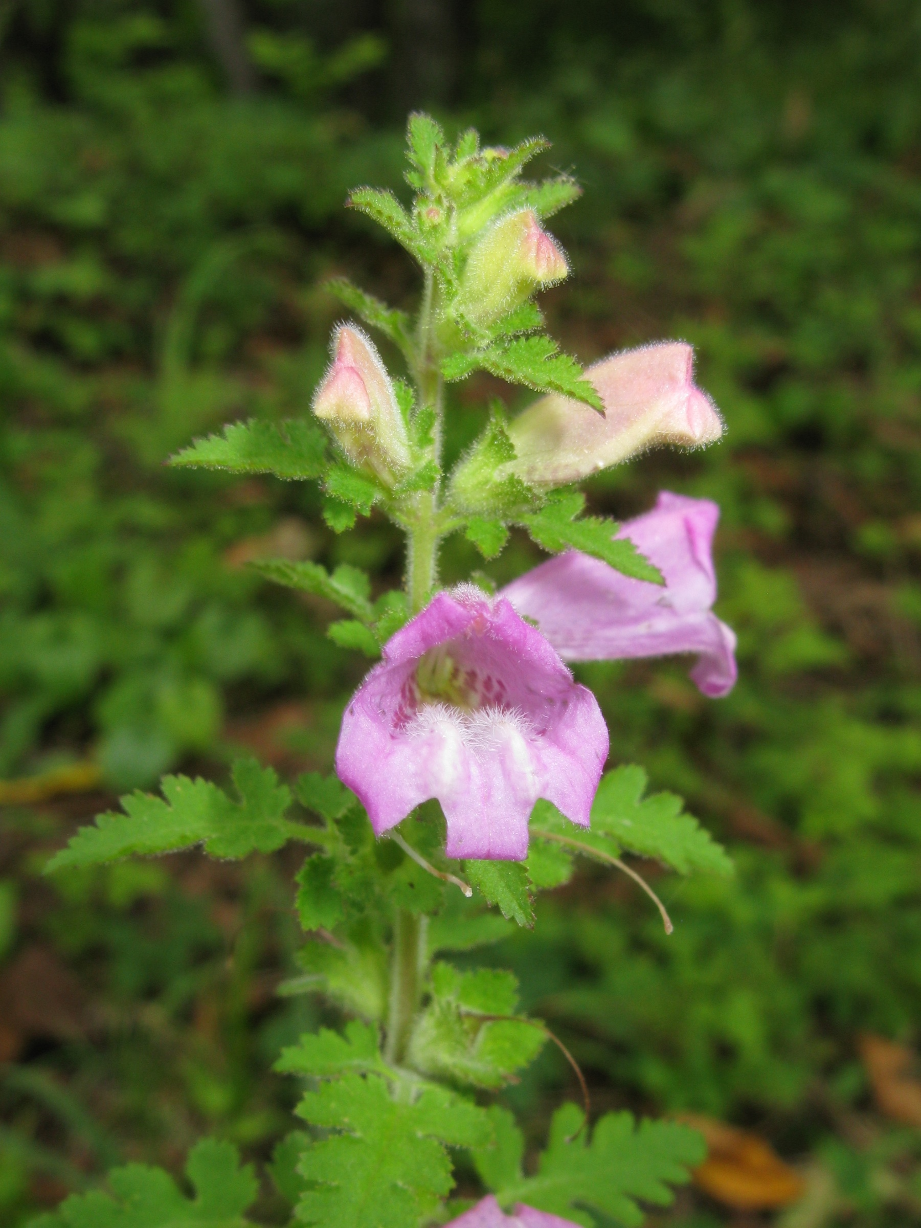 Phtheirospermum japonicum, Fukushima pref., Japan